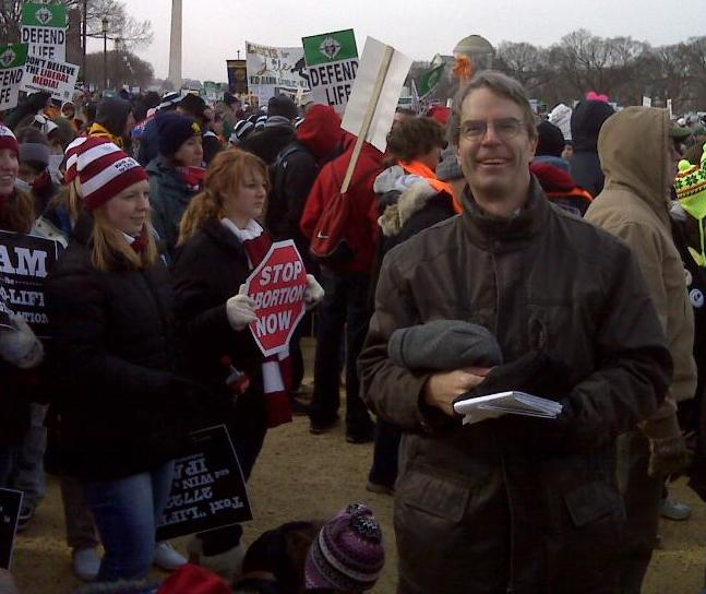 Conservapedia image from March For Life '11 Images that they can be freely used without any copyright restriction